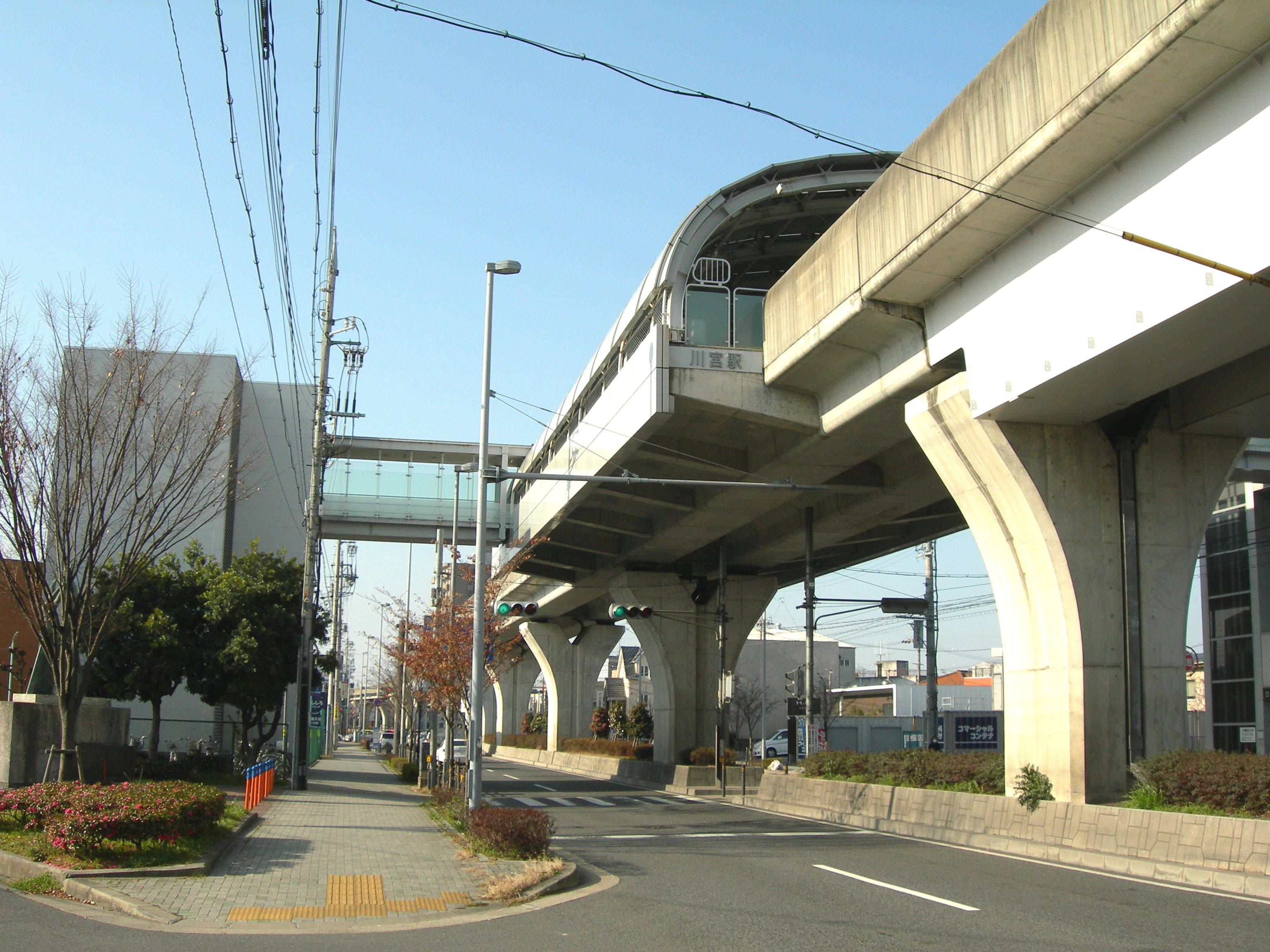 Nagoya Guideway Bus Kawamiya Station